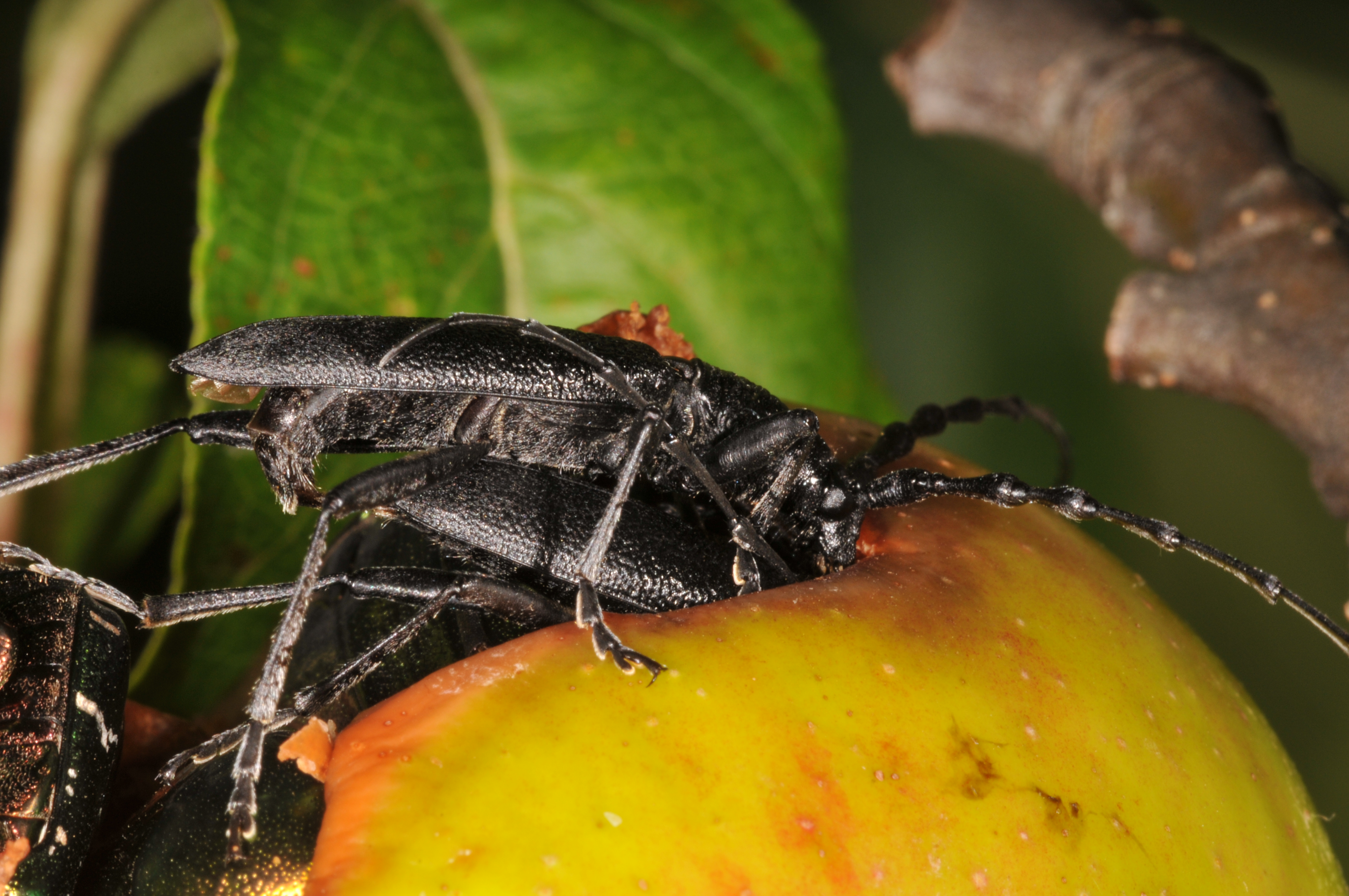 Cerambyx scopolii, mating, Croatia, Istria, Brseč 15 km south Lovran, 45°10`23,80``N 14°13`37,25``E